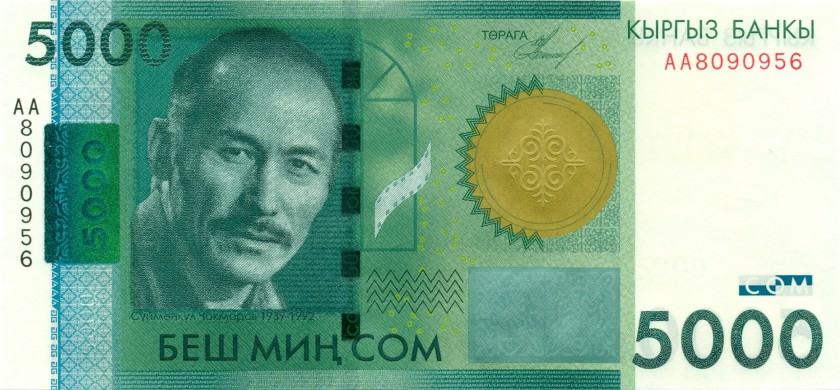 5000 som 2009 ob